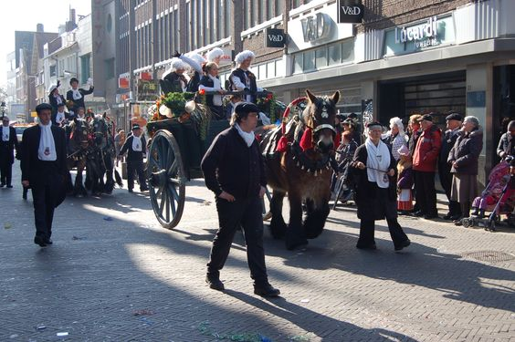 Boerenbruiloft Venlo 2011